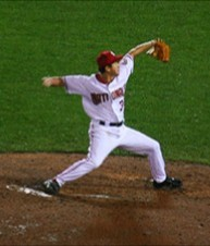 Tomo Ohka nationals